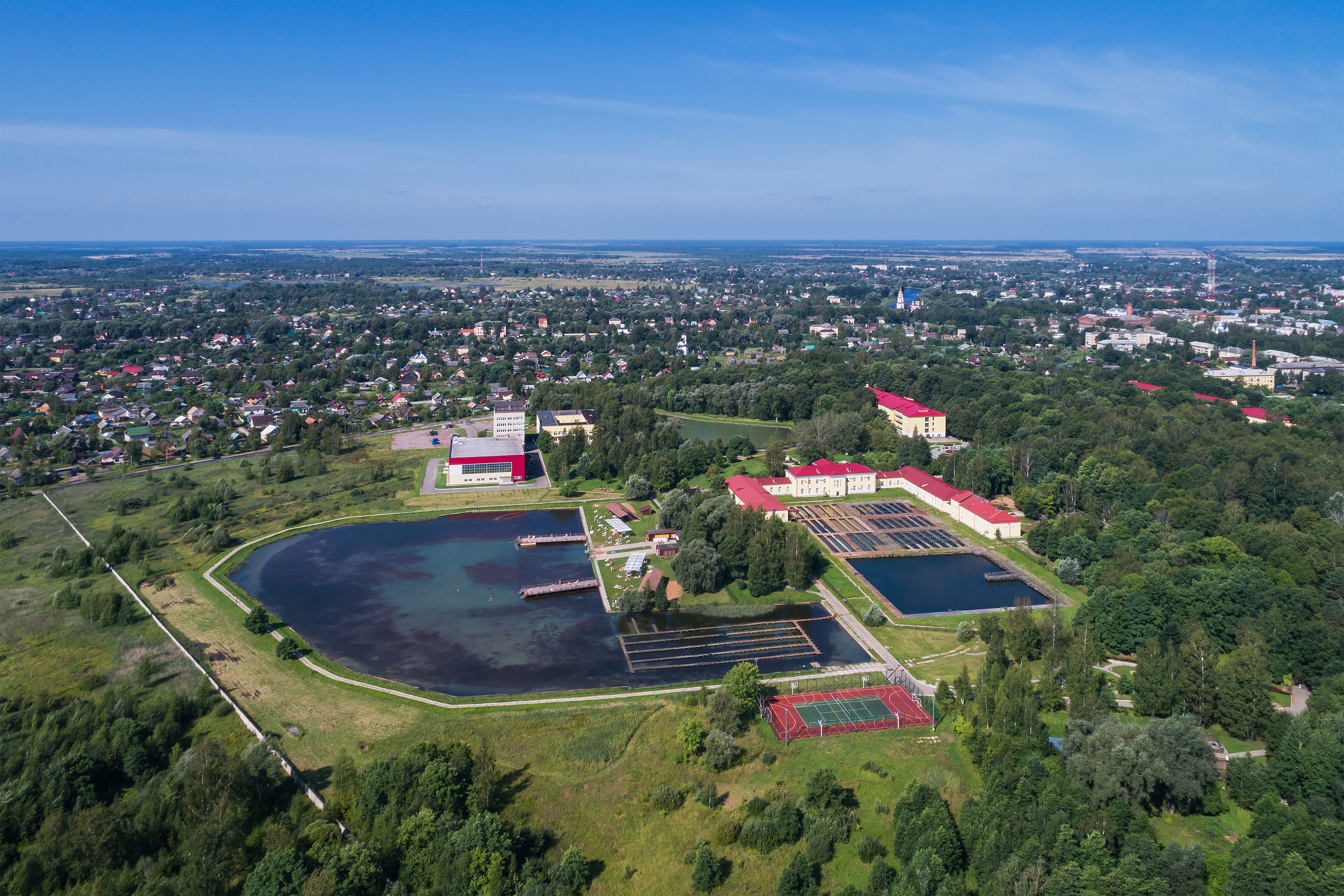 Aerial photo of Staraya Russa Resort in Novgorod Oblast, Russia. In the left middle: mud lake with beach, to the right thereof: indoor mud bath.